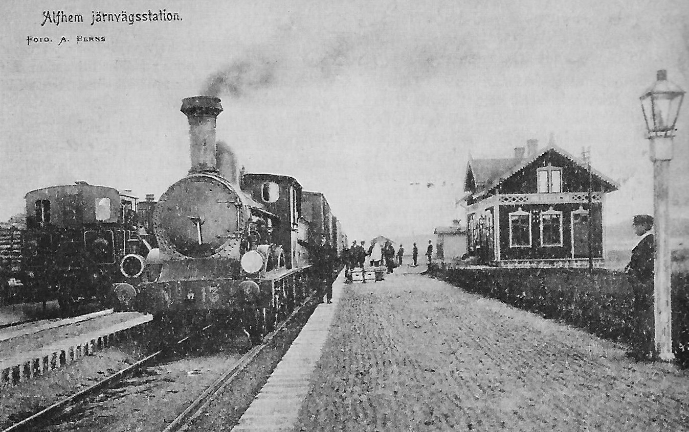 The former train station in Alvhem at the railway line Bergslagsbanan 1906.